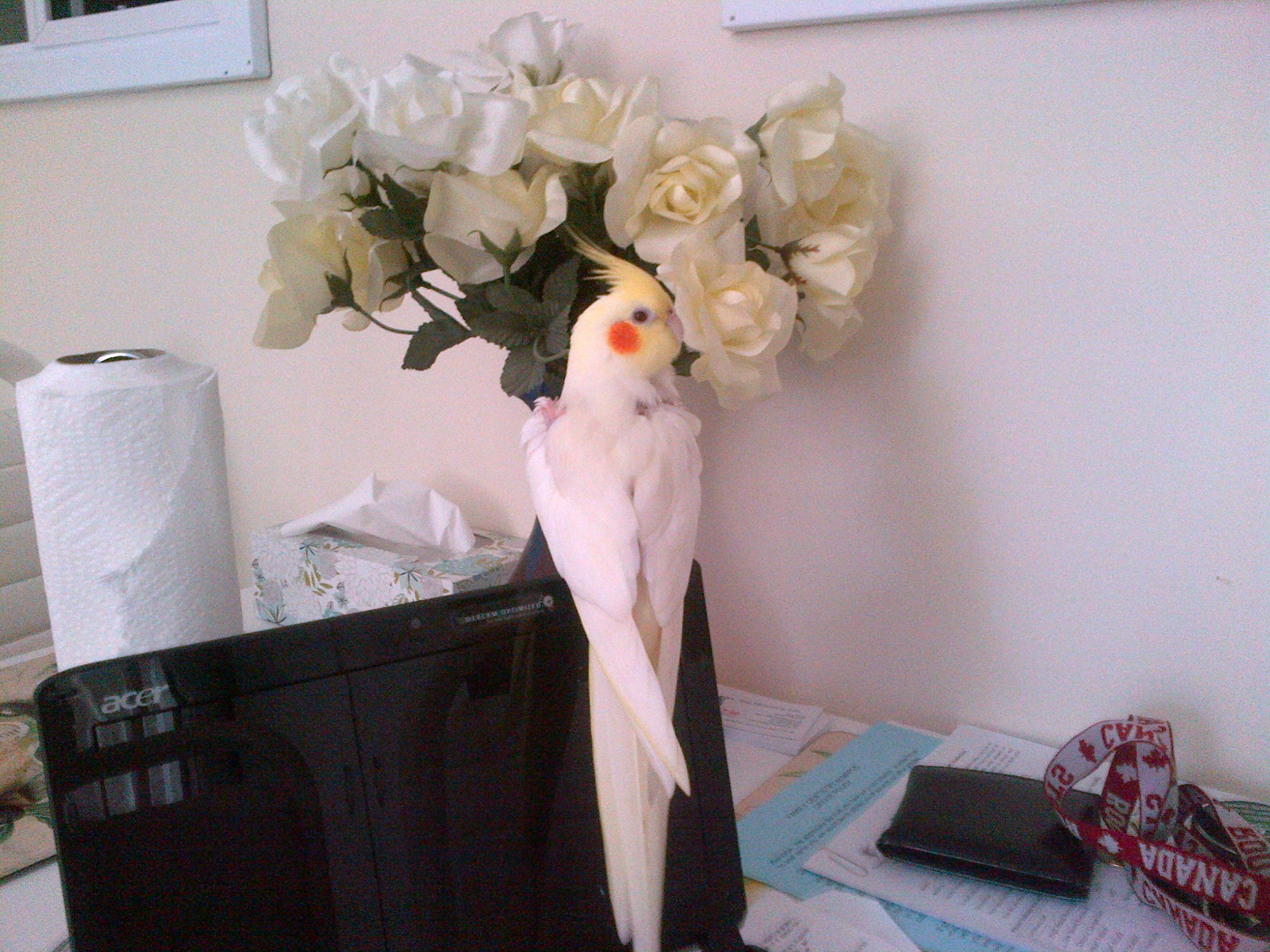 A photo of a female lutino cockatiel with contrasting flowers in the background.